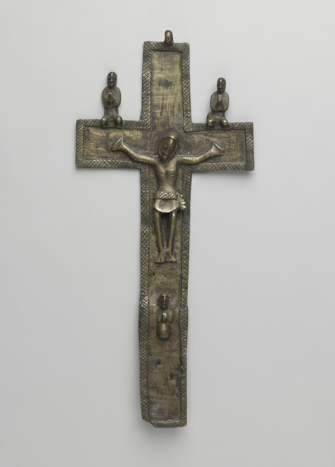 Copper-alloy cast crucifix, with two kneeling figures resting on bar above hands, with a third projecting below the central figure's feet. Cross is bound by a raised continuous band of "X"-hatched striations. Small casting flaws in lower portion, below third kneeling figure. Likely local repair, in the form of additional welded copper-alloy, has been affixed to verso behind lower kneeling figure. Former typed label on verso reads: "Crucifix fabriqué au 16e siècle par les noirs royaume de San Salvador (Bas-Congo et Congo Portugais) lors de leur évangélisation surtout par les Capucins portugais.” Condition: fair.